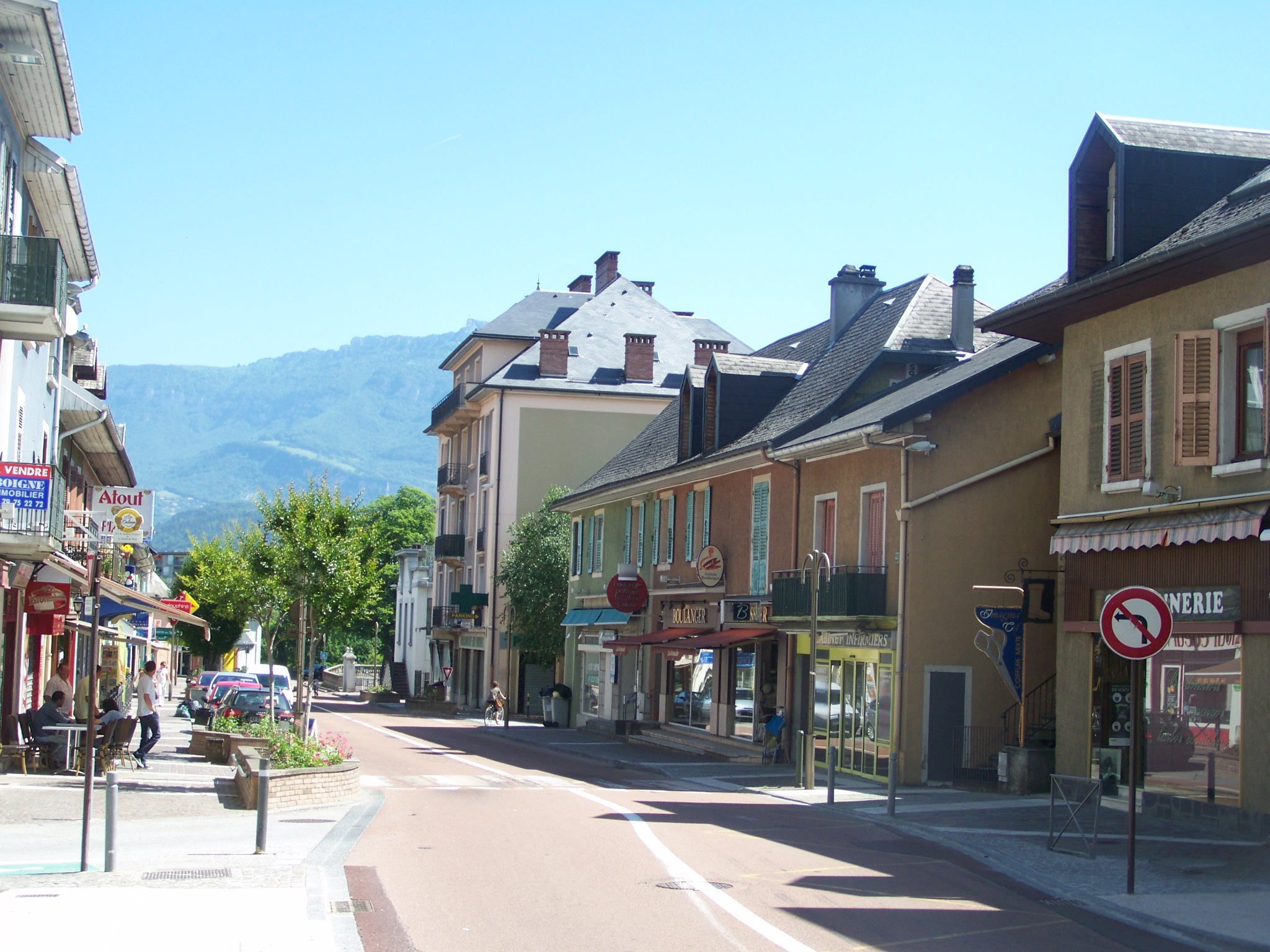 Road D 1006 (before: Nationale 6) crossing French commune of Cognin neat Chambéry in Savoie.